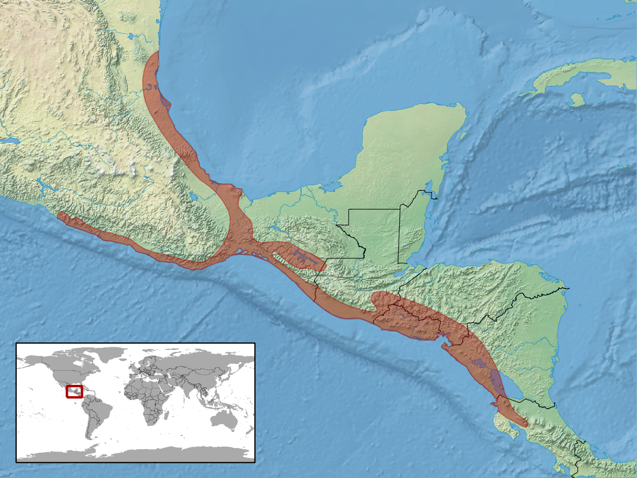 geographic distribution of Coniophanes piceivittis (Native: Costa Rica; El Salvador; Guatemala; Honduras; Mexico; Nicaragua)